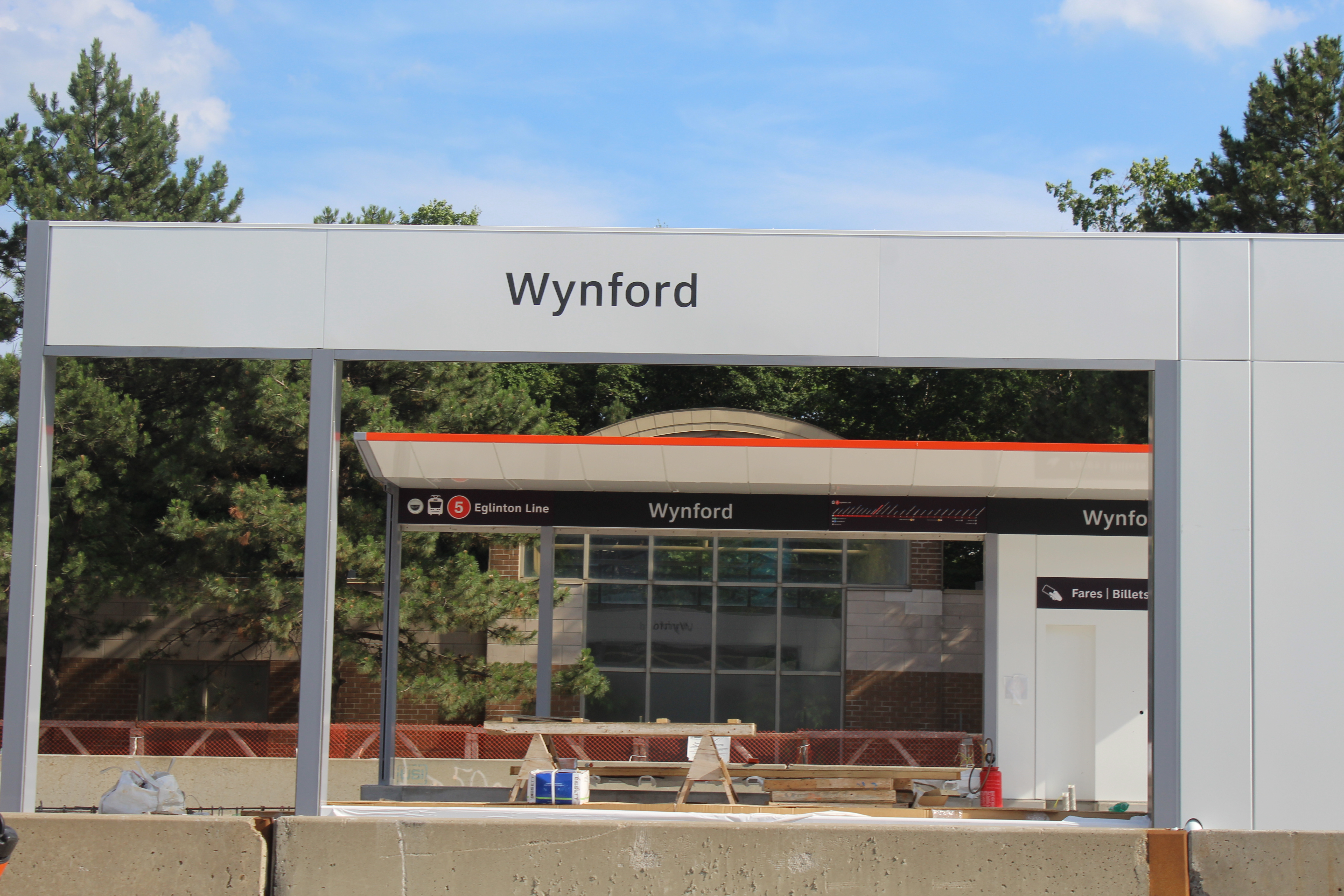 Wynford LRT stop under construction on 26 July 2020.